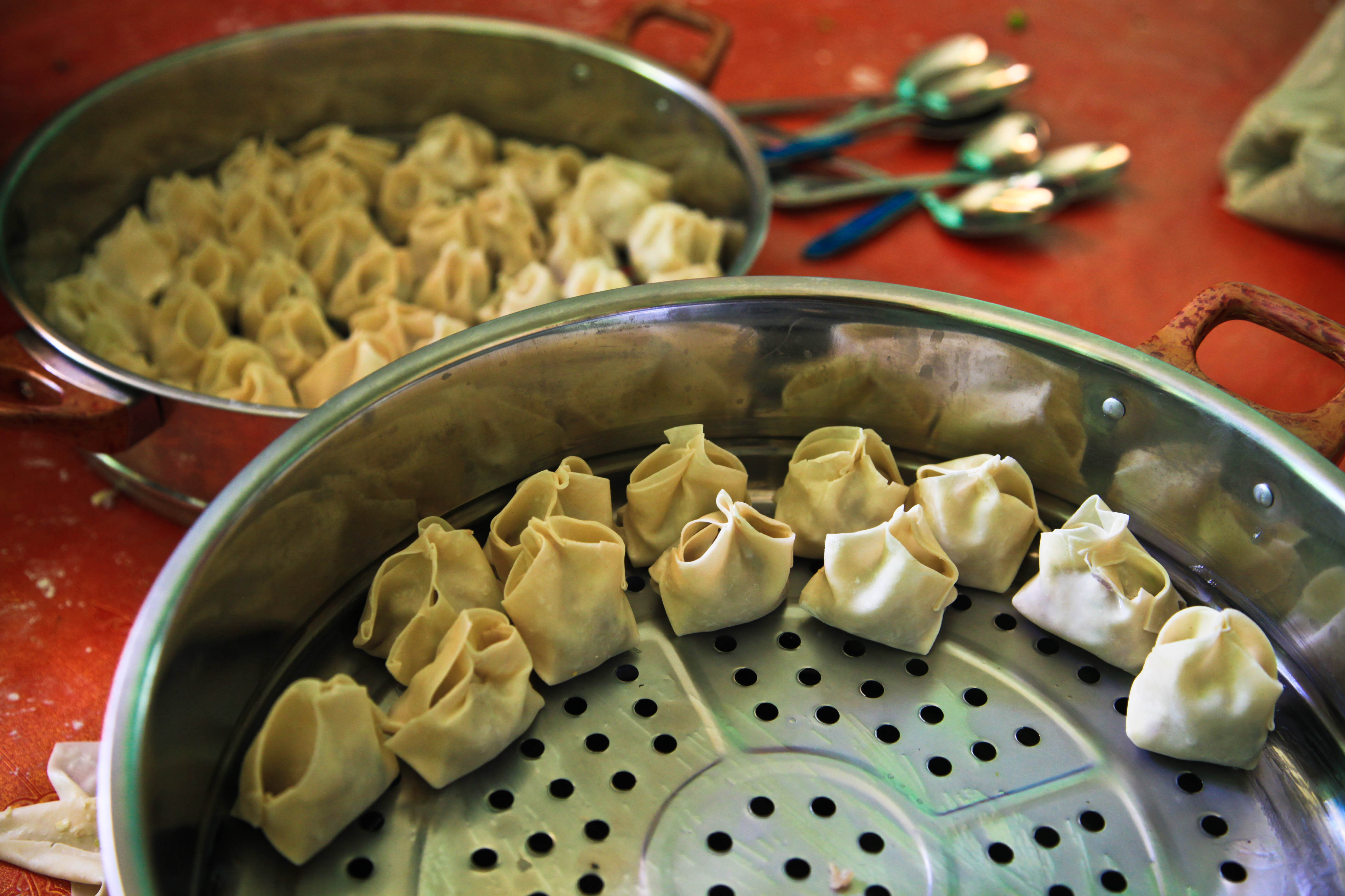 The Afghan dish of mantoo was prepared by women in the Kapisa Women's Shelter for U.S. soldiers serving with the Female Engagement Team, Kentucky National Guard Agribusiness Development Team 3, Task Force Hurricane, Mahmod-e Raqi District, Kapisa province, Afghanistan, Dec. 31, 2011. (Photo ID: 505803)